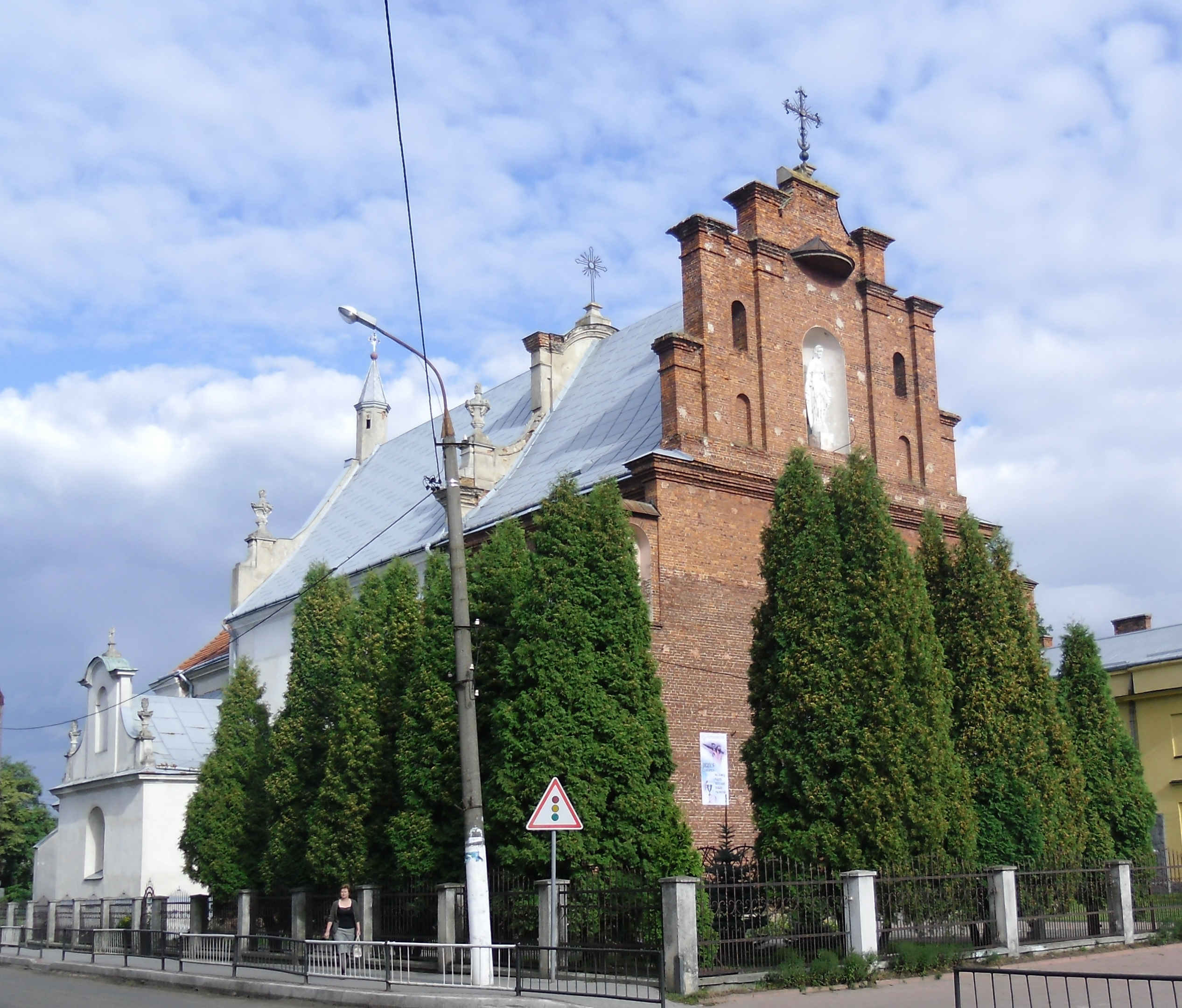 Horodok, Lviv Oblast. Roman Catholic Church the Exaltation of the Holy Cross.